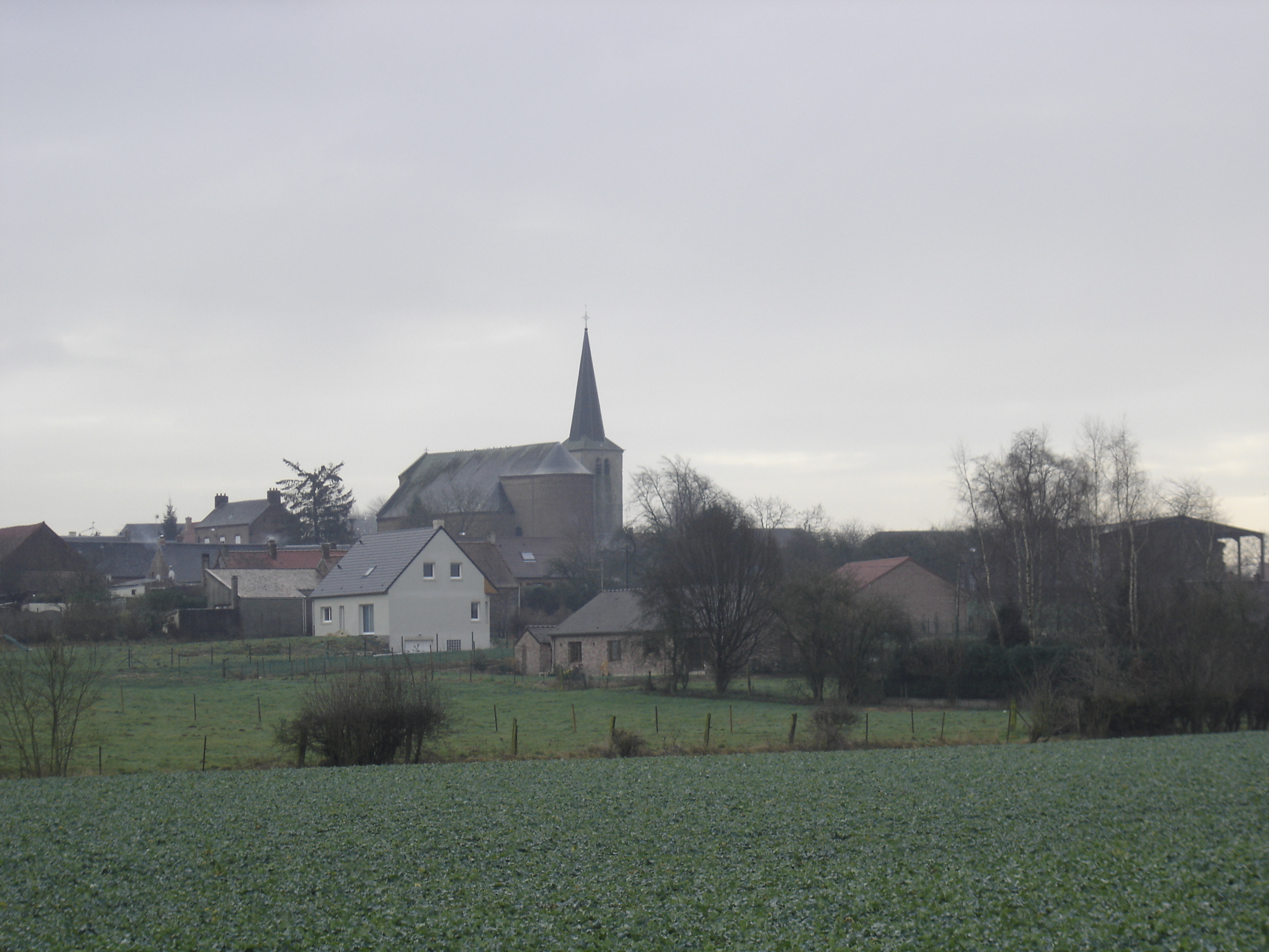 Reumont Overall view of the village with Saint-Pierre church